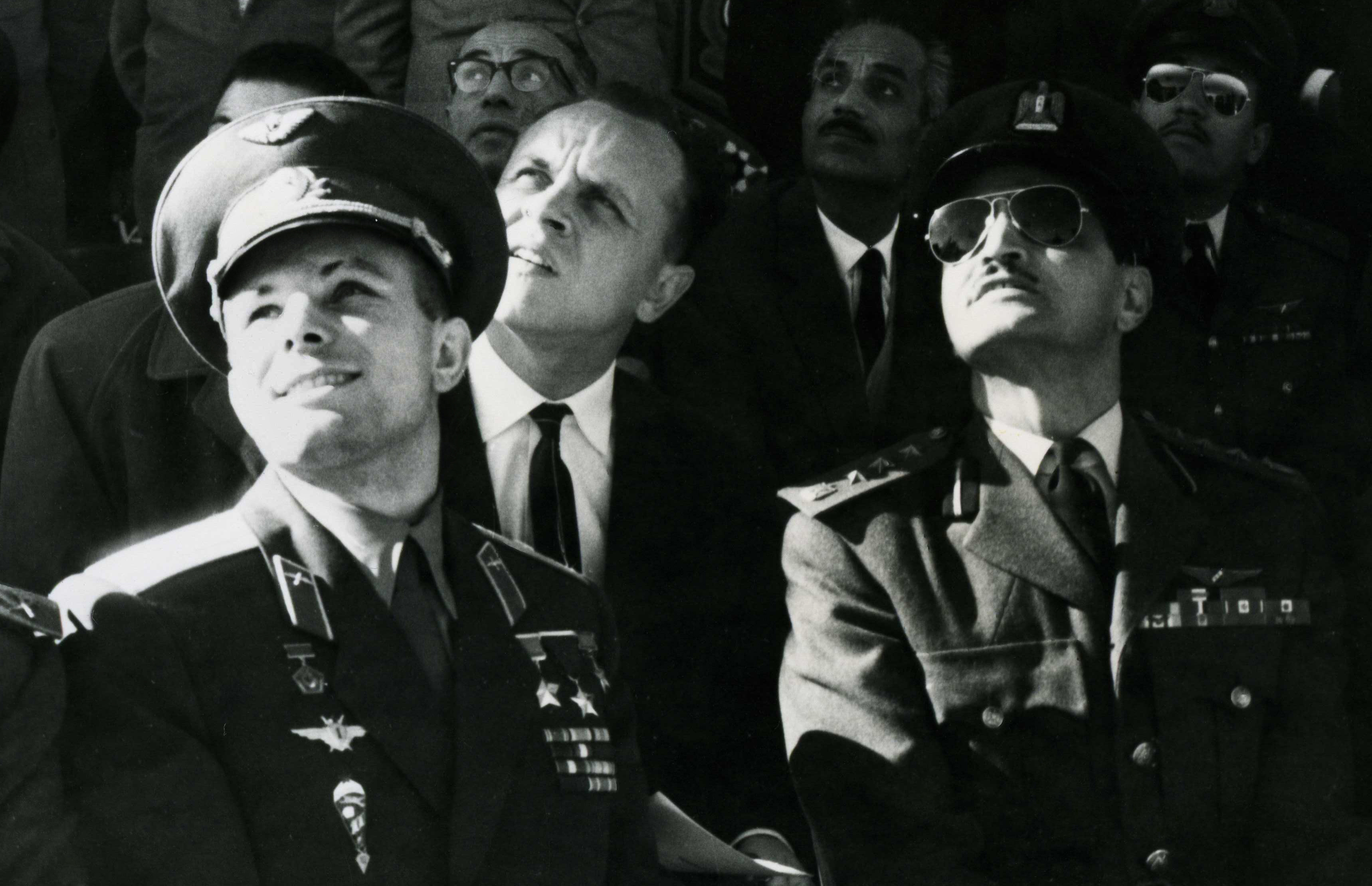 Yuri Gagarin observes the Air Parade, Air Base near Cairo, Egypt, 1962